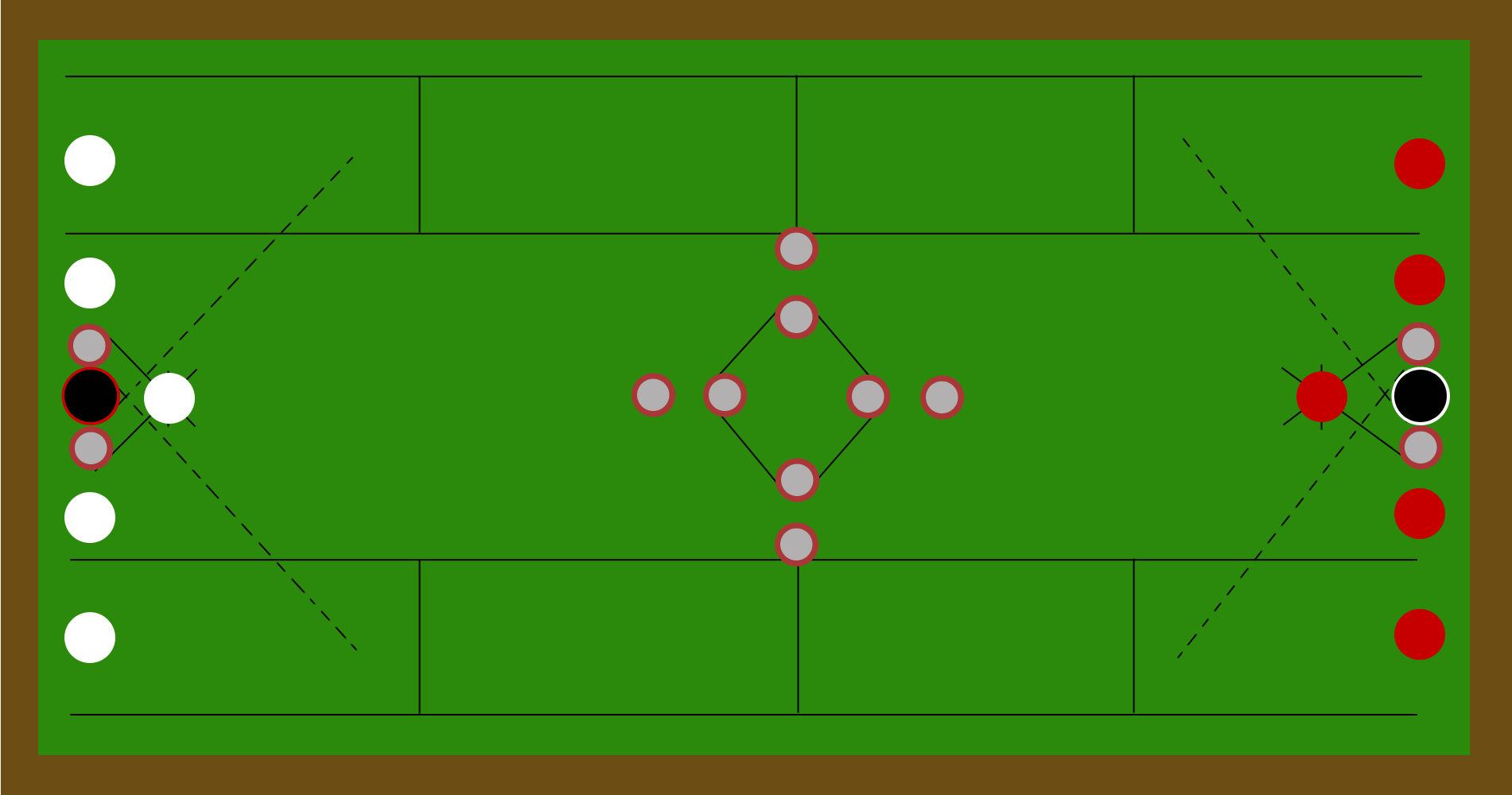 Golfbiljart tafel (en: Setup of the rectangular version of bumperpool)